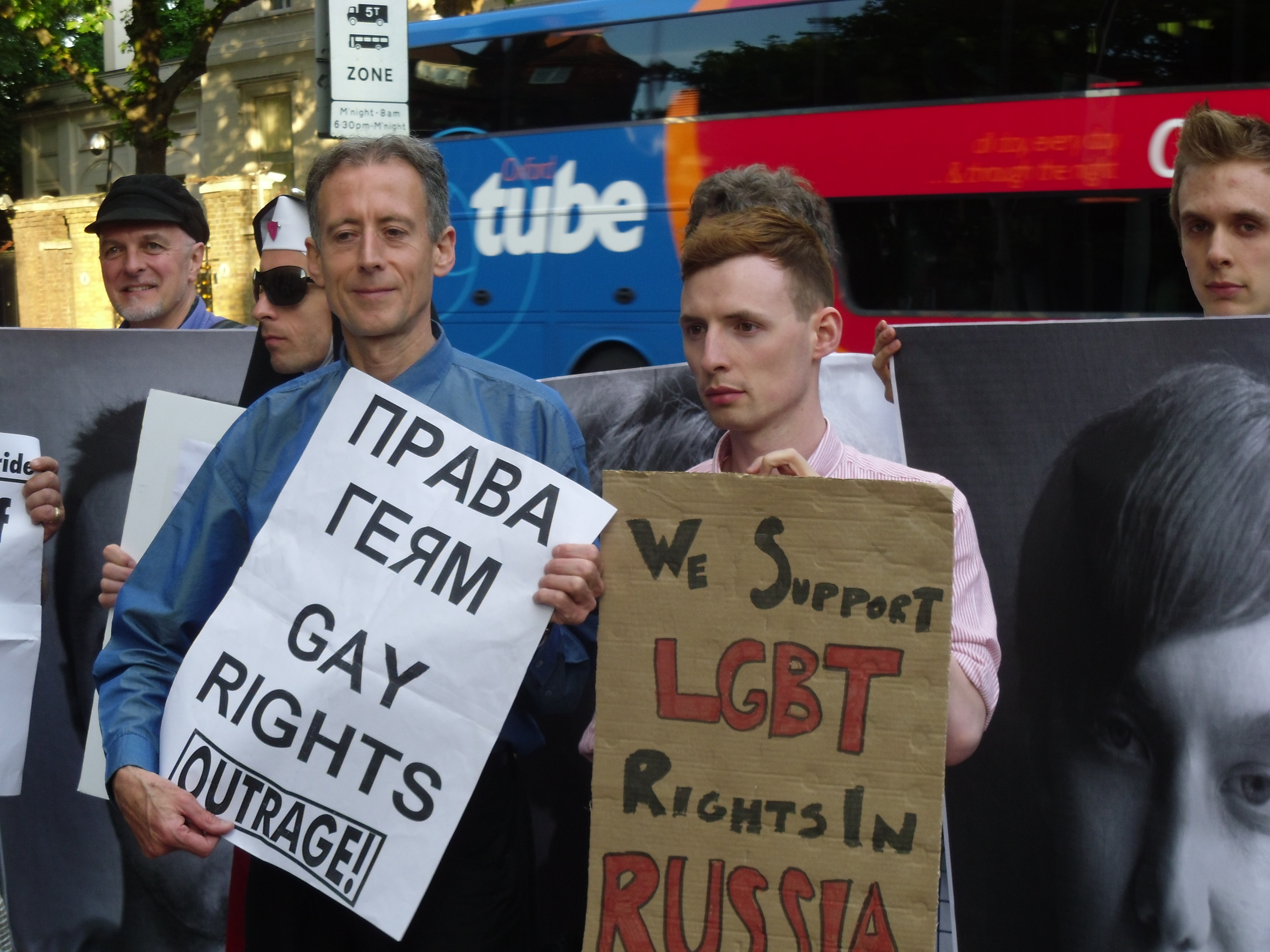 Protest against Russia's banning of Moscow Gay Pride, 1 July 2011, outside the Russian Embassy in London.